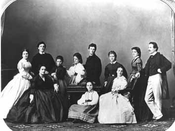 Karl Wittgenstein (1847-1913) with his ten brothers and sisters taken on the occasion of the silver wedding anniversary of Hermann Christian Wittgenstein and Fanny, née Figdor